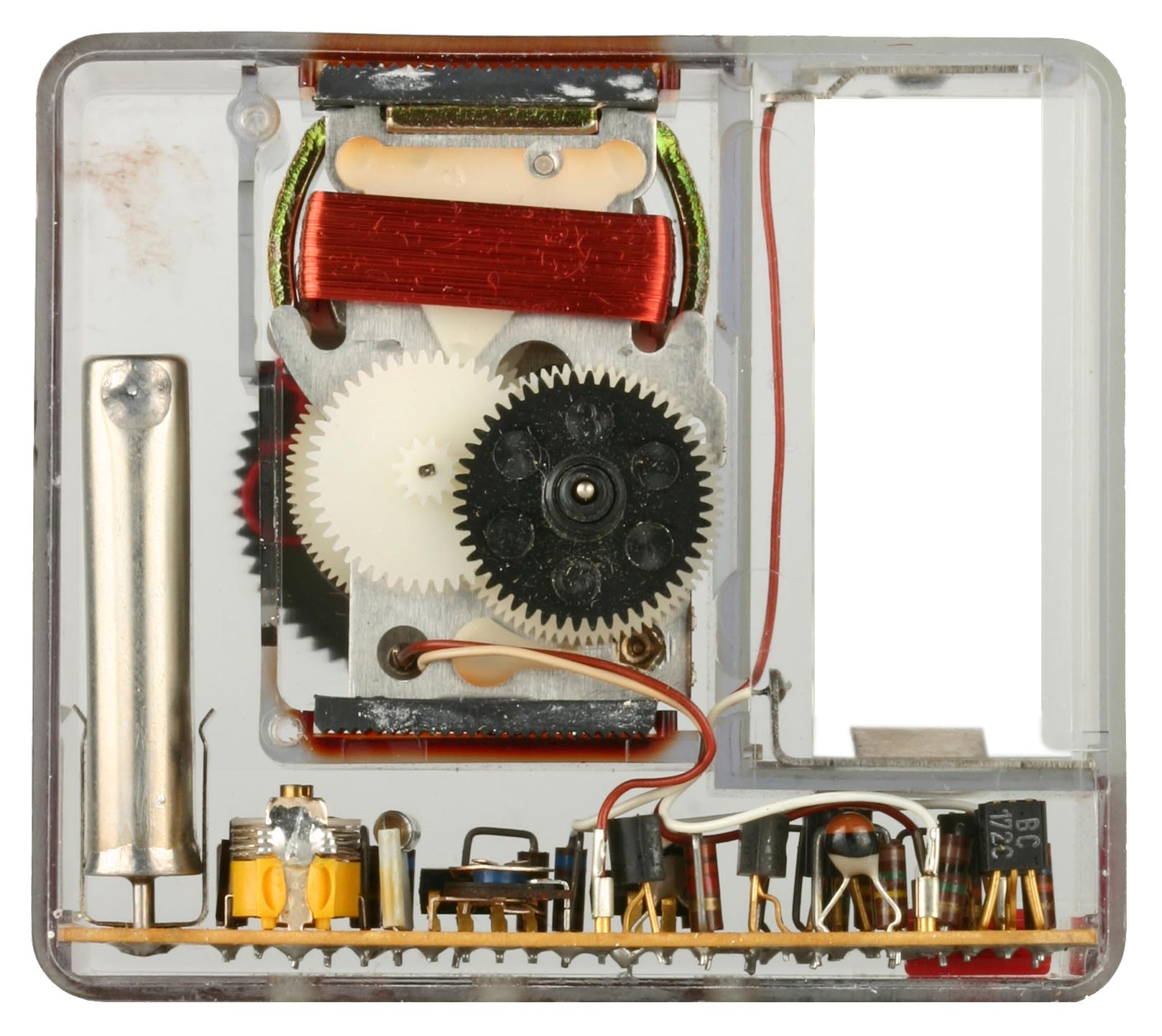 Movement for a quartz clock CQ 2000, Staiger, St. Georgen (Black Forest), 1971. The world's first mass-produced quartz movement. (Deutsches Uhrenmuseum, Inv. 1995-525-2)